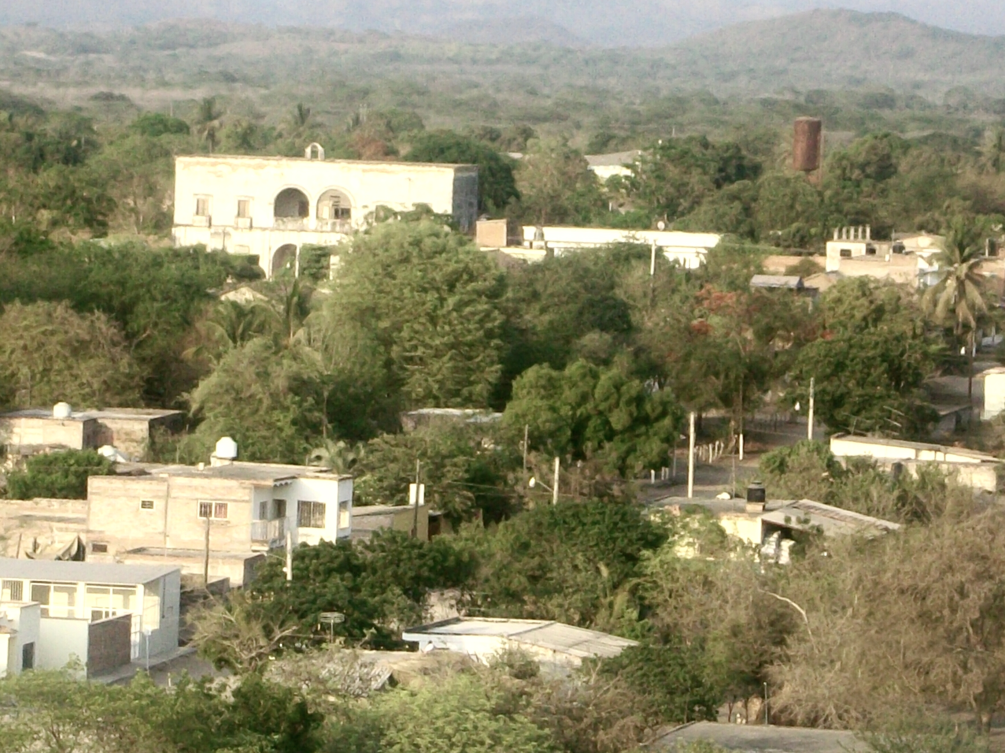 CHILAPA